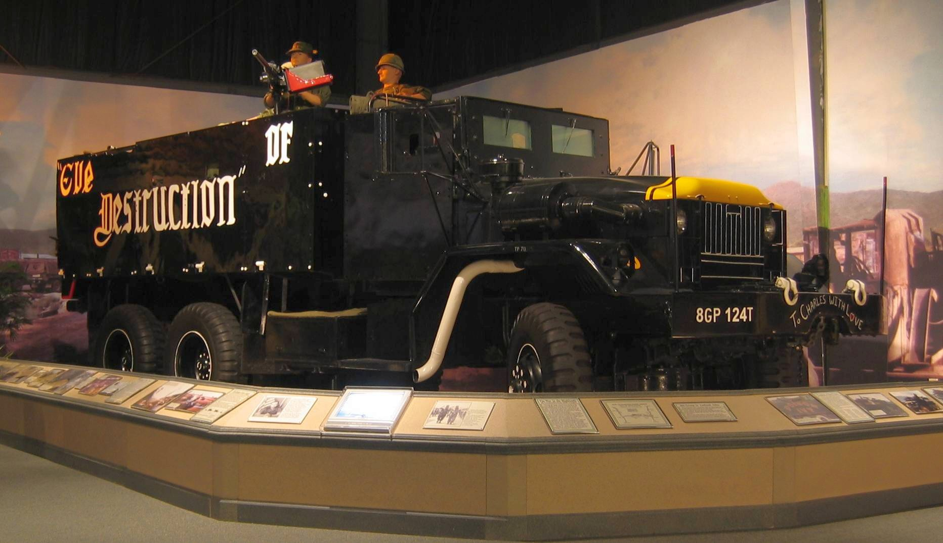 A gun truck made of M54 5 ton truck